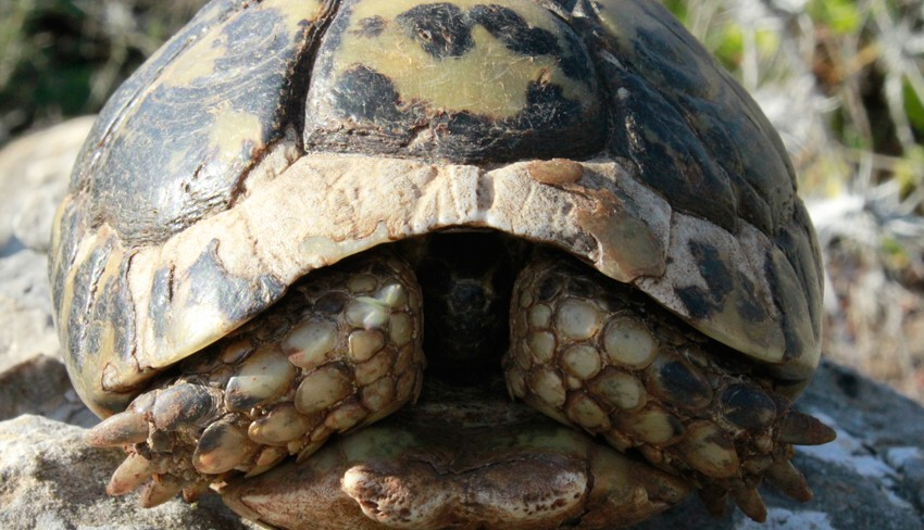 Wildlife and Plants of Israel